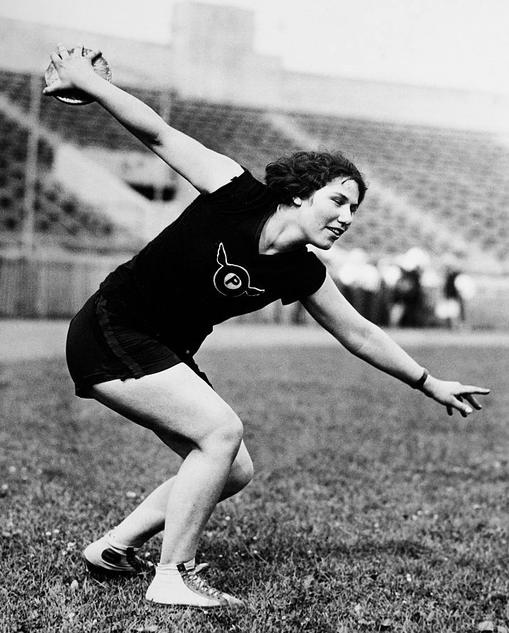 1928 Press Photo Maybelle Reichardt wins discus throw event at Olympic Tryouts